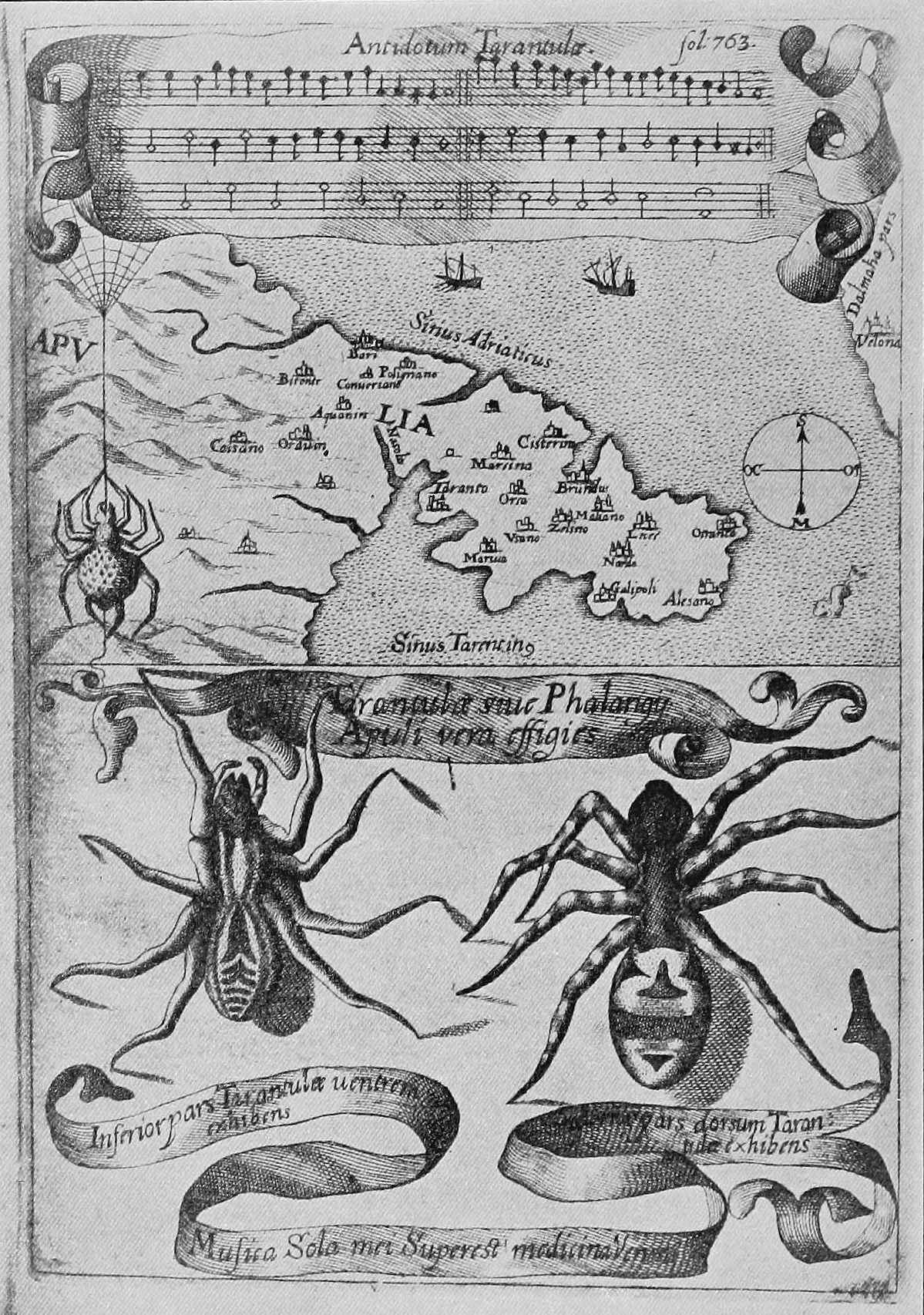 Antidotum tarantulae - music for treatment of tarantism or tarantula envenomation